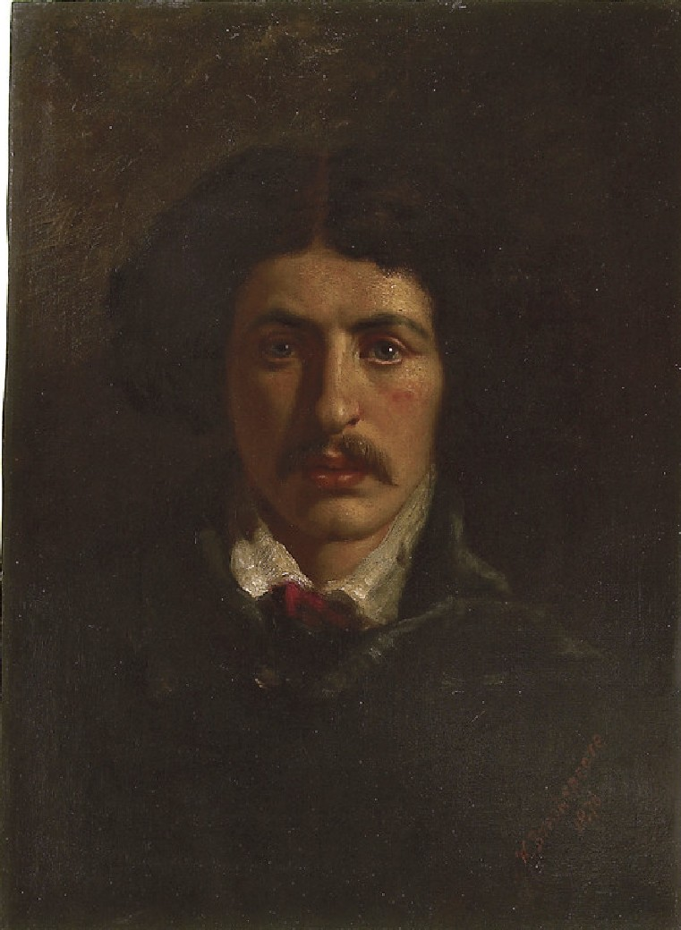 William Arthur Breakspeare; Self-portrait; now in the collection of the Ashmolean Museum of Art and Archaeology; ref: ASH ASHM WA1966 24-001